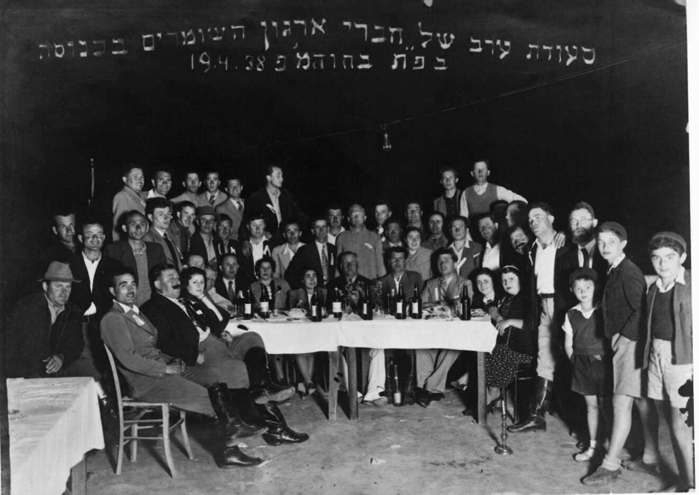 A dinner feast of members of the HaShomrim organization at its conference in Petach Tikvah, on Hol Hamoed Pesach.